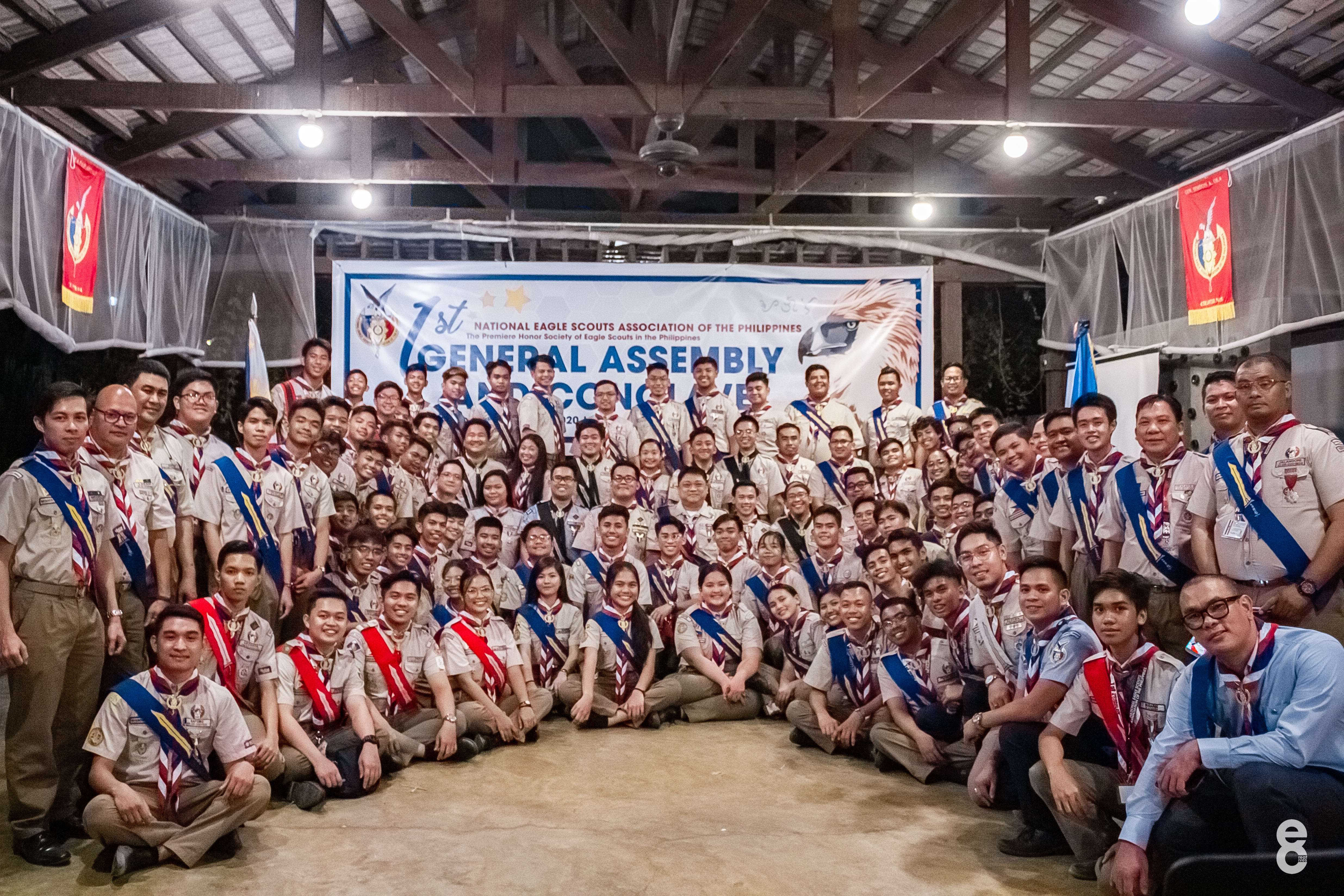 First General Assembly of NESAPh